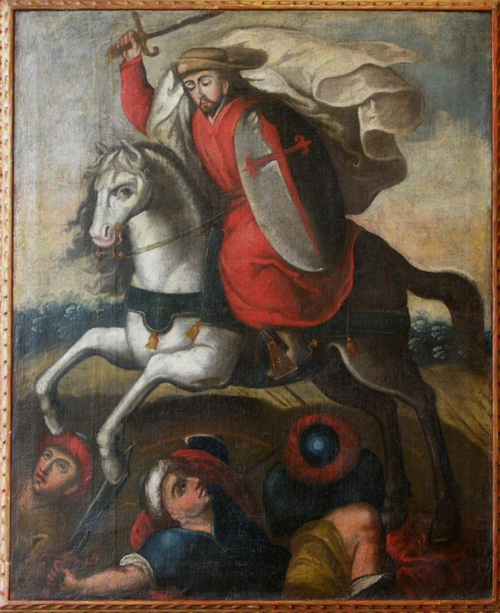 Saint James Moorslayer, Peru